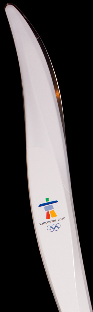 Closeup of unlit Olympic torch body and tip.